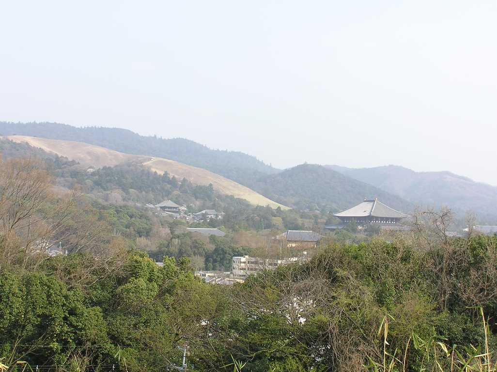 A view over Todai-ji from Tamon Castle site